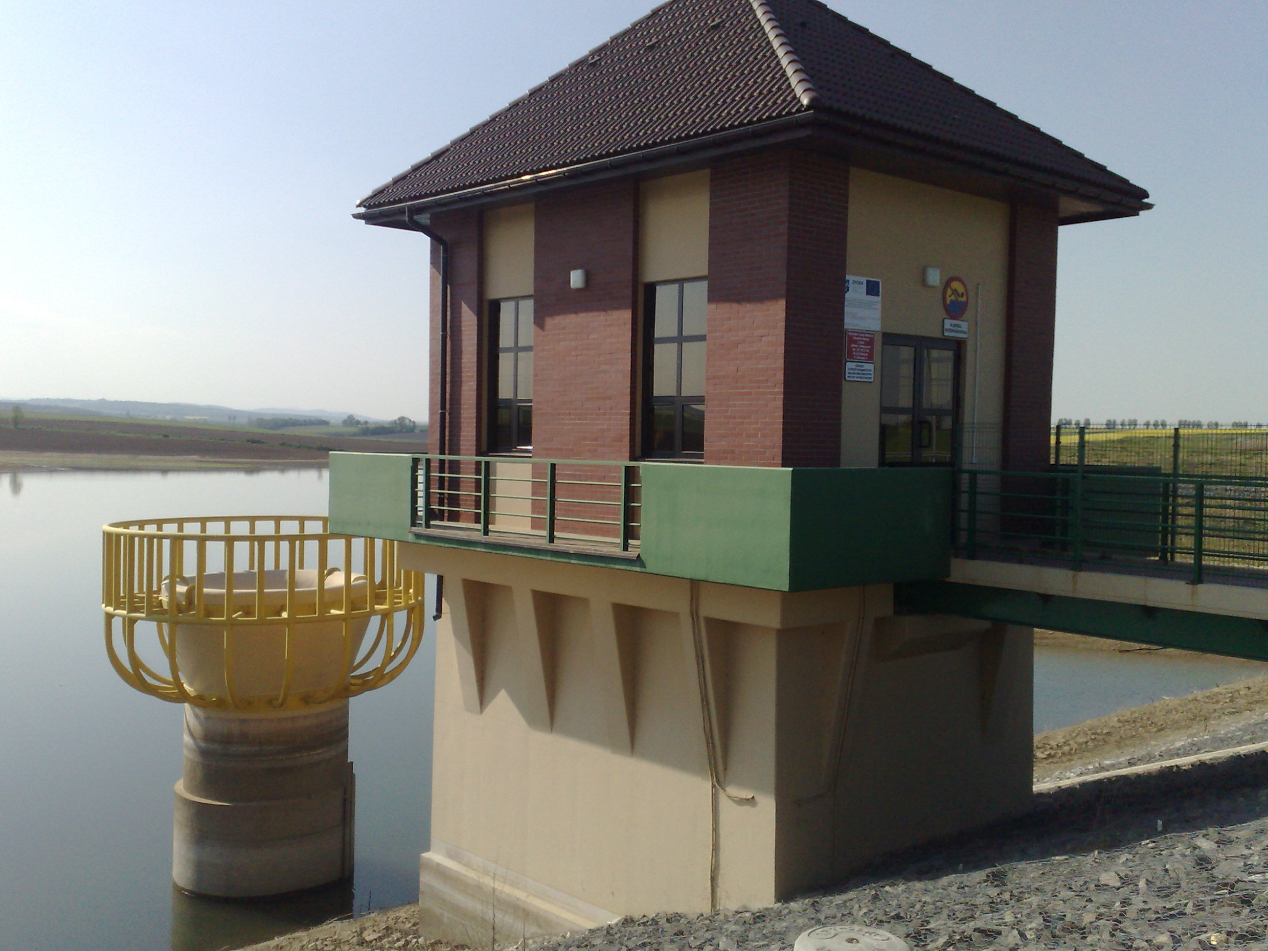 wieza przelew